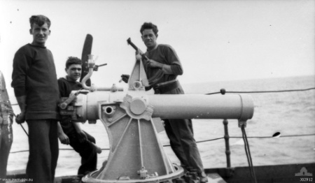 AWM caption : "THE DEPTH CHARGE GUN AND ITS CREW ON THE S.S. "ORCA" DURING THE VOYAGE TO AUSTRALIA WITH TROOPS RETURNING FOR DEMOBILIZATION." Comment : this appears to show a 7.5 inch naval howitzer, an anti-submarine mortar.